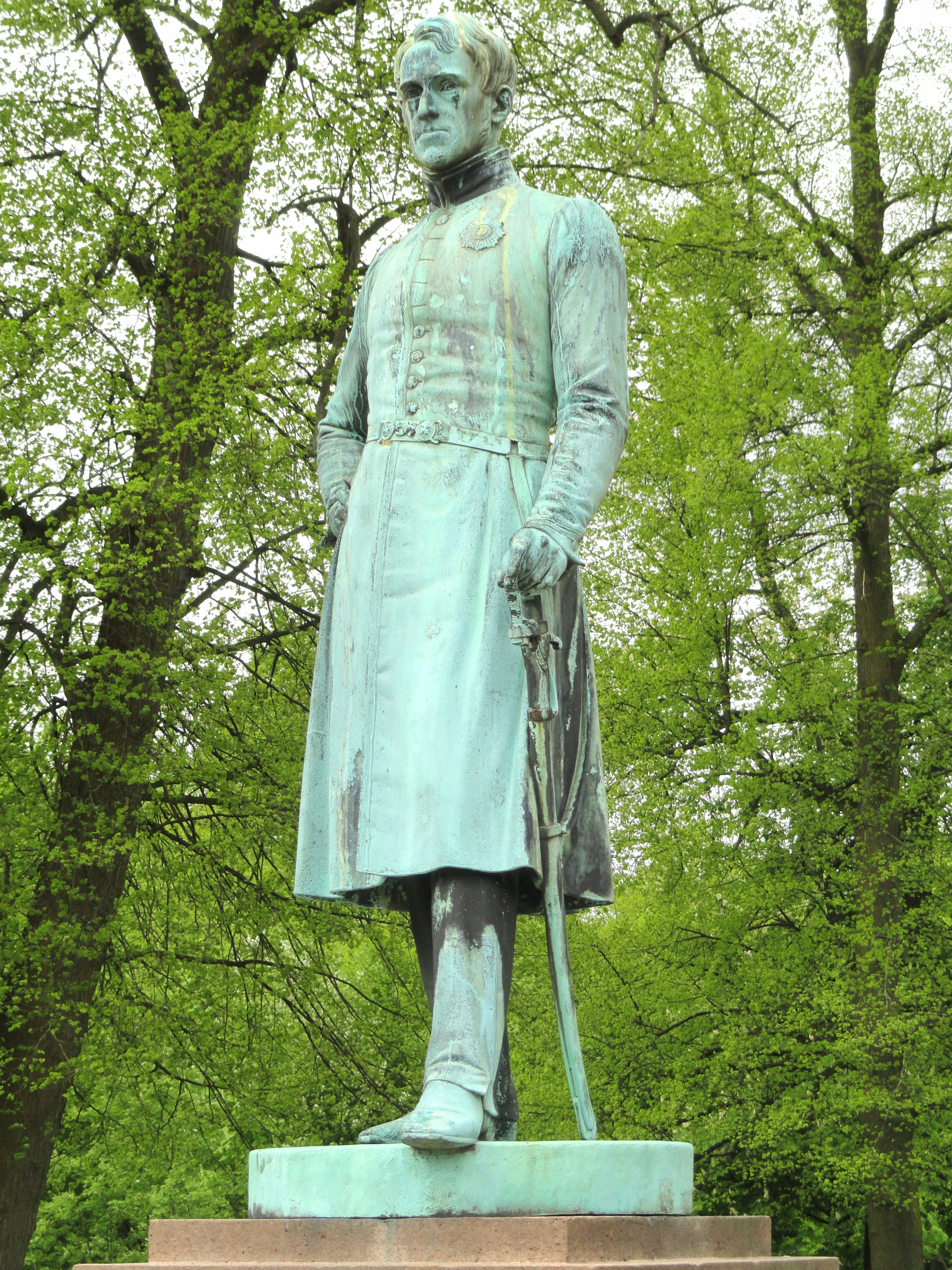 Frederik VI by Herman Wilhelm Bissen, Frederiksberg Have, Copenhagen, Denmark. This artwork is now in the public domain because the artist died more than 70 years ago.